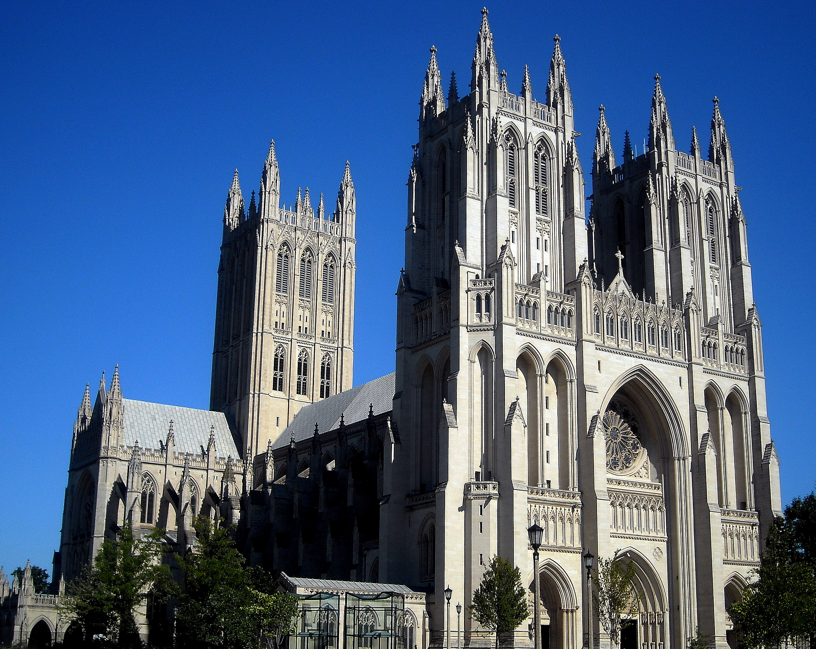 The Washington National Cathedral, also known as the Cathedral Church of Saint Peter and Saint Paul, located at 3101 Wisconsin Avenue, NW, in the Massachusetts Heights neighborhood of Washington, D.C.